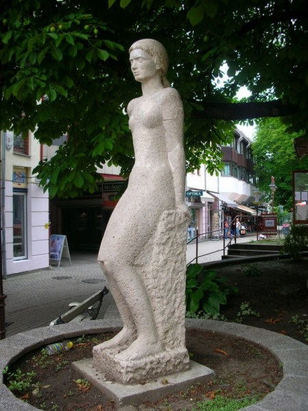 Pensive girl